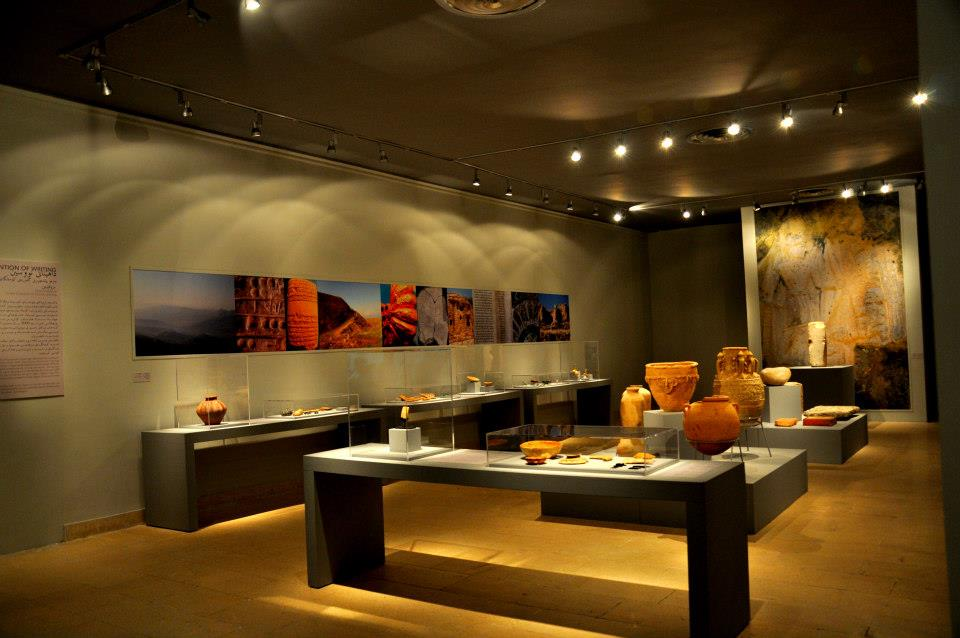 This hall was renovated by the UNESCO and was opened in April 2013. It contains most of the Sulaymaniyah Museum masterpieces.